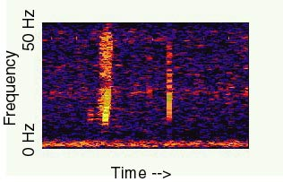 A spectrogram of the mysterious sound Bloop.